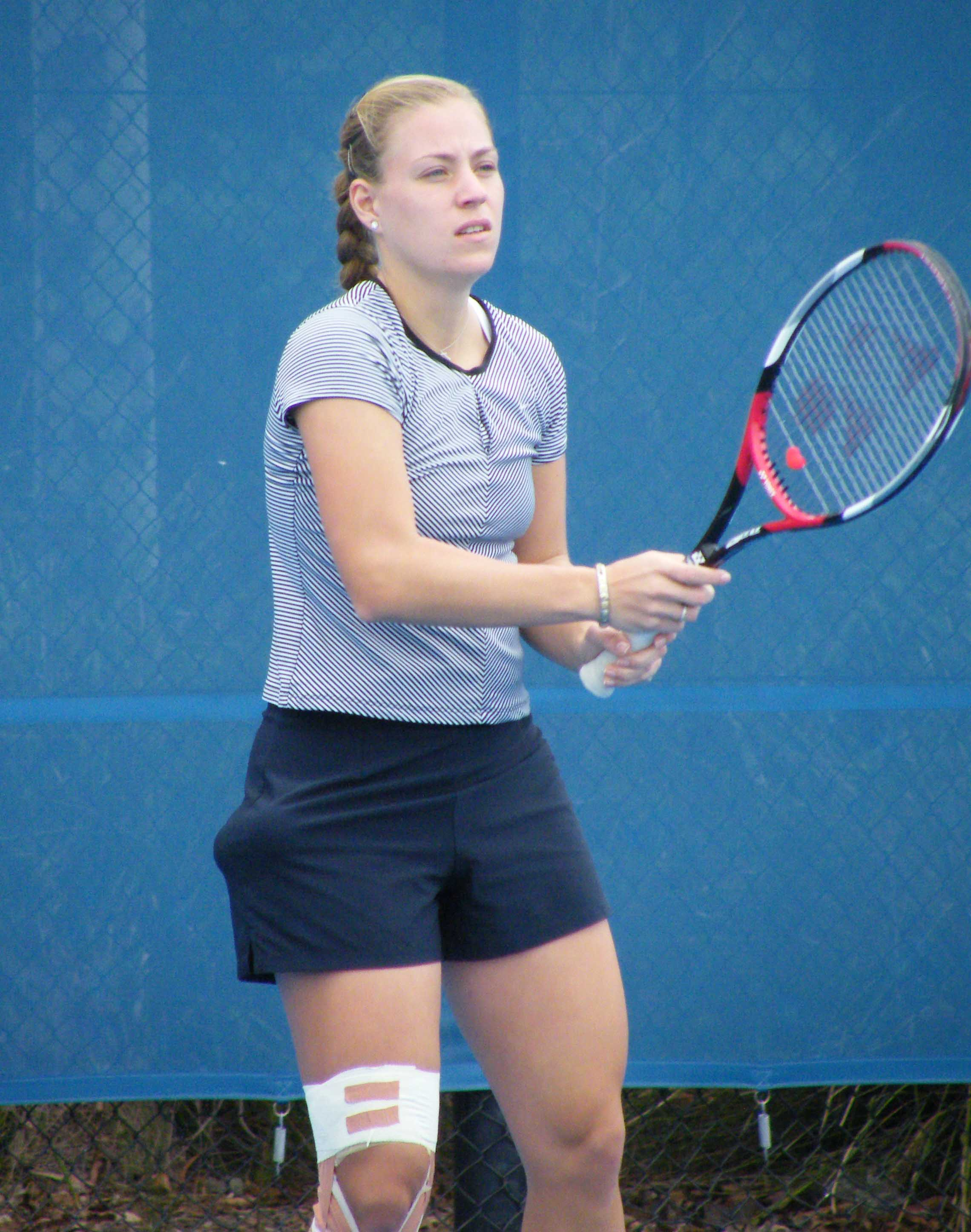 Angelique Kerber of Germany - NSW Tennis Open, January 2009.